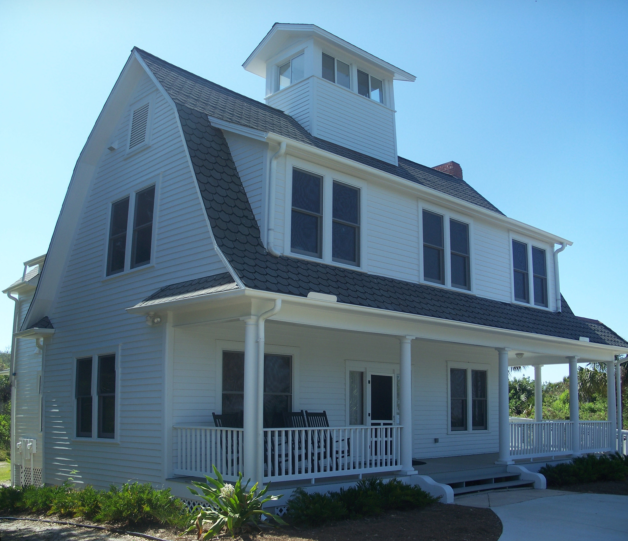 Canaveral National Seashore: Moulton-Wells House